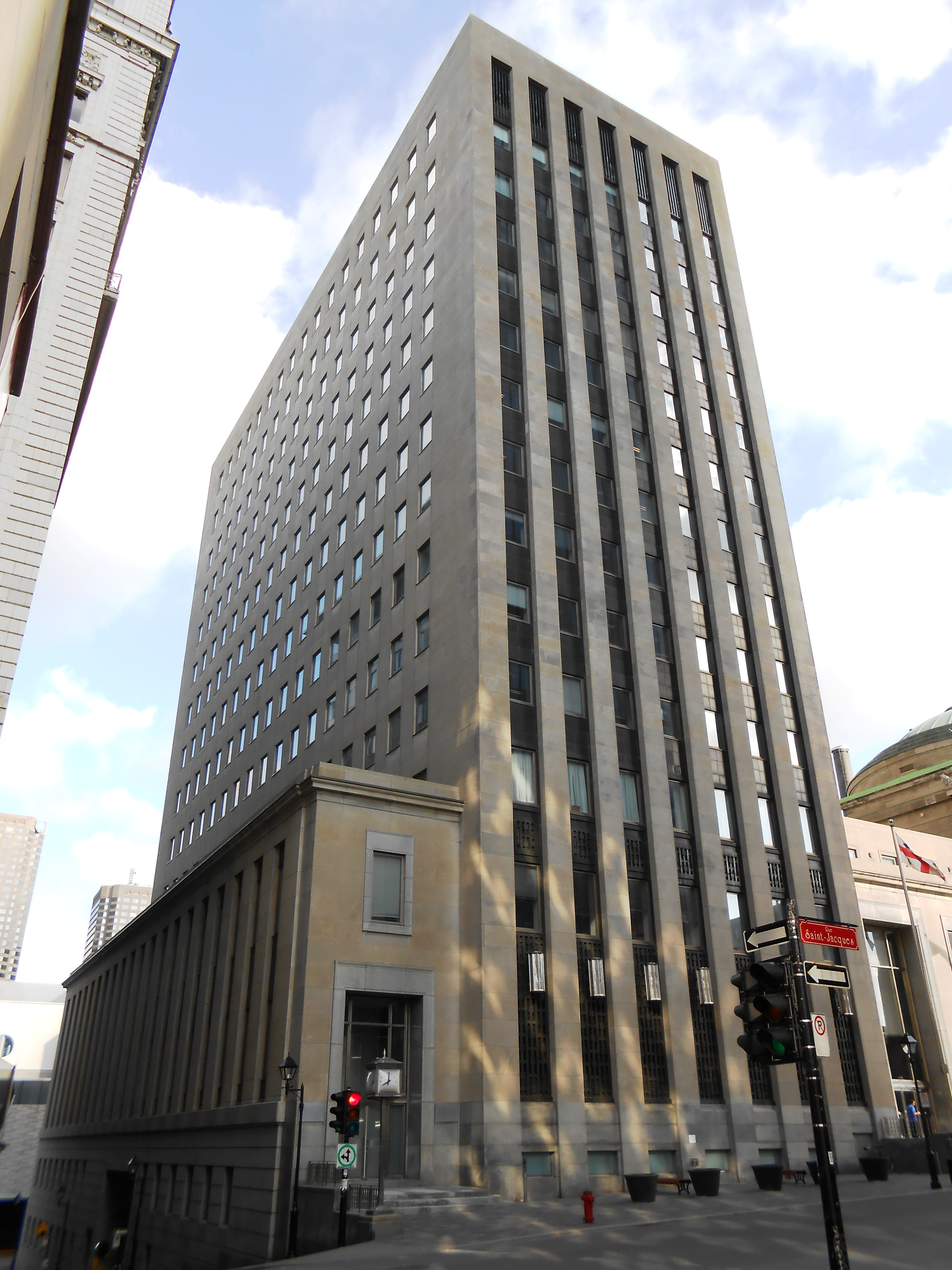 Bank of Montreal Building, 129-155 Saint-Jacques Street, Montreal, Quebec, Canada